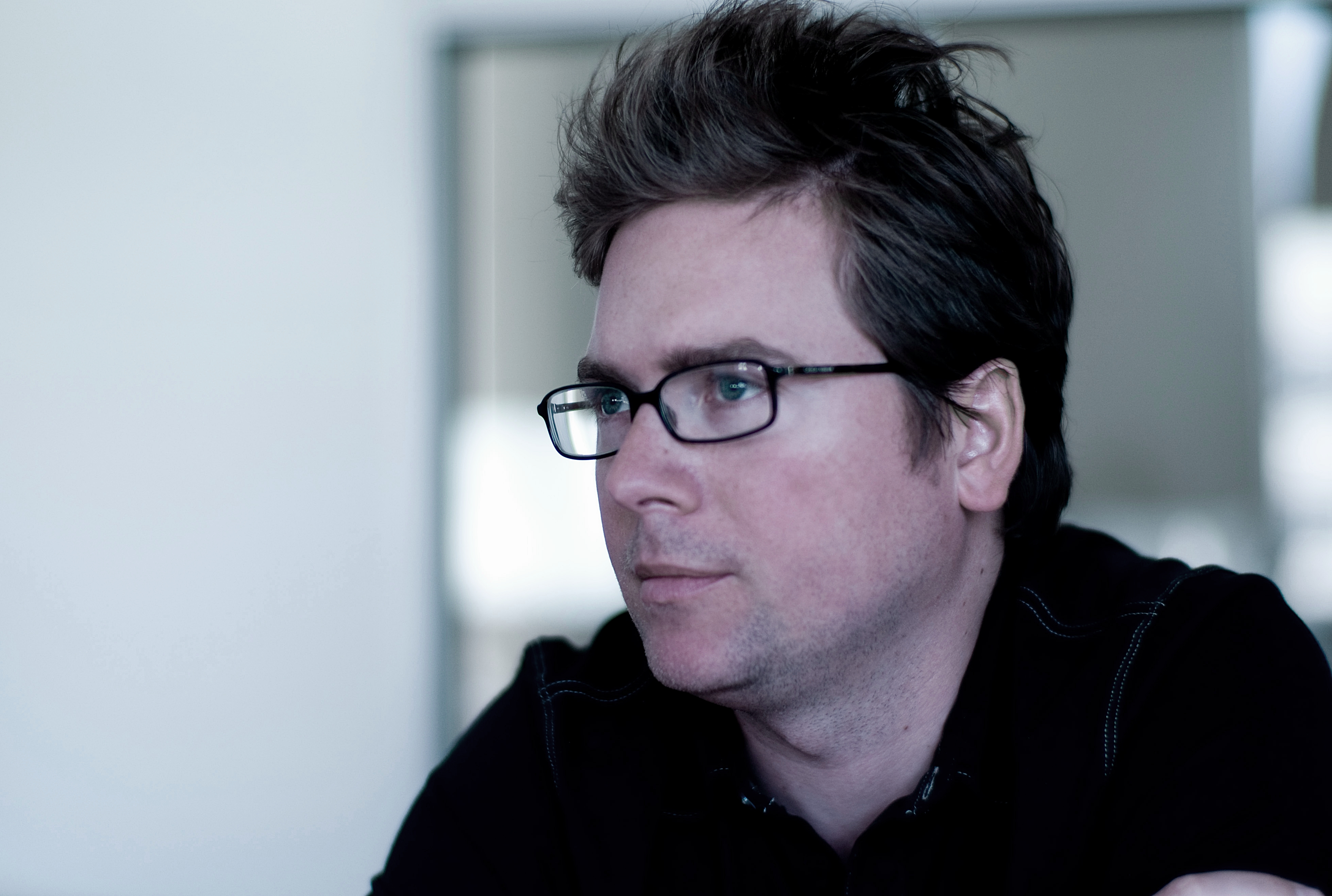 Biz Stone, co-founder of Twitter